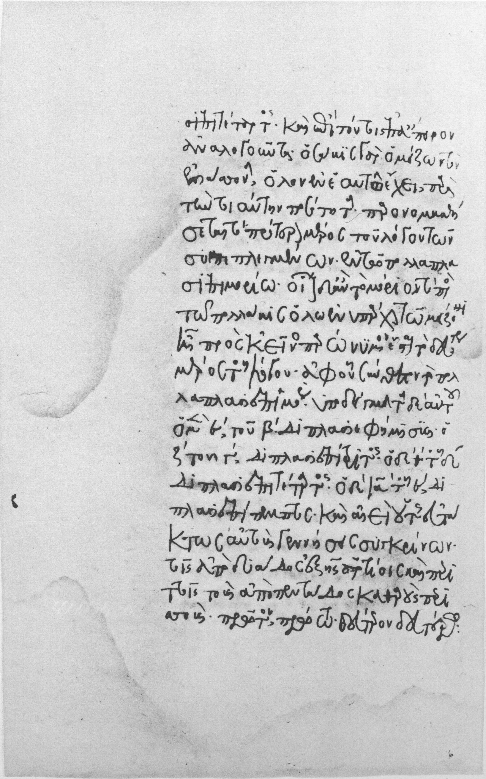 Nicomachus of Gerasa, Introductio arithmetica. Manuscript Vatican, Codex Vaticanus graecus 195, fol. 36v.